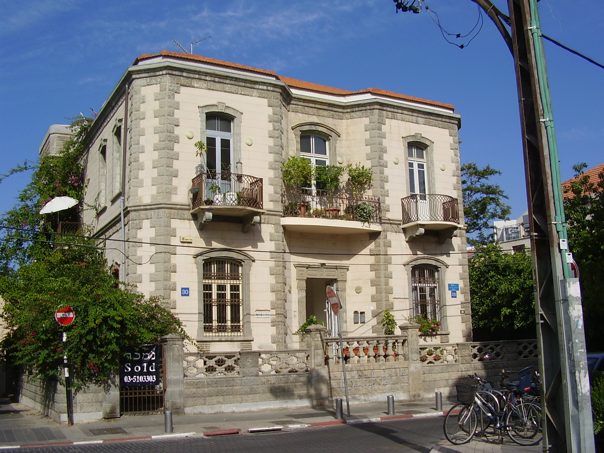 twin house in neve zedek, tel-aviv